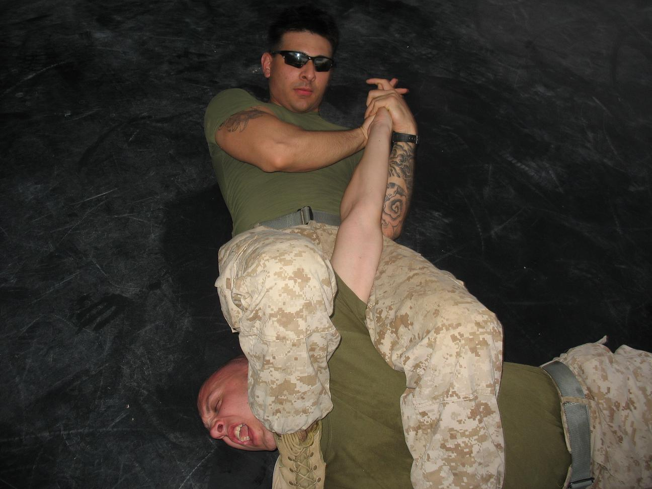 U.S. Marine demonstrating the armbar technique, Marine Corps Martial Arts Program.